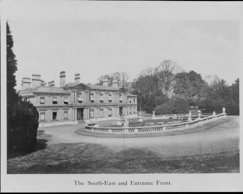 Old print of Aston Clinton House